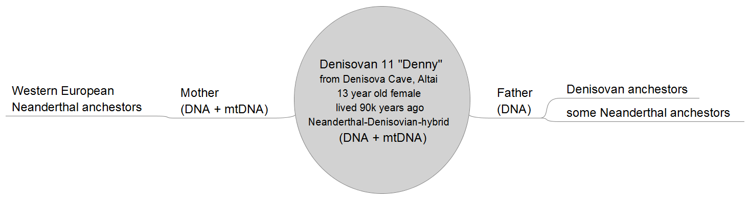 This is the determined genetic tree of ancestors of the Denisovan 11 individual.